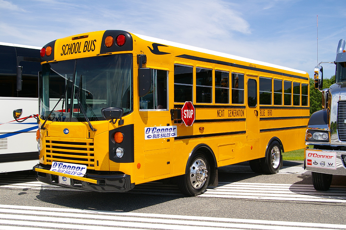 A 2010 Blue Bird "All American D3 FE" school bus on display at a transportation show.